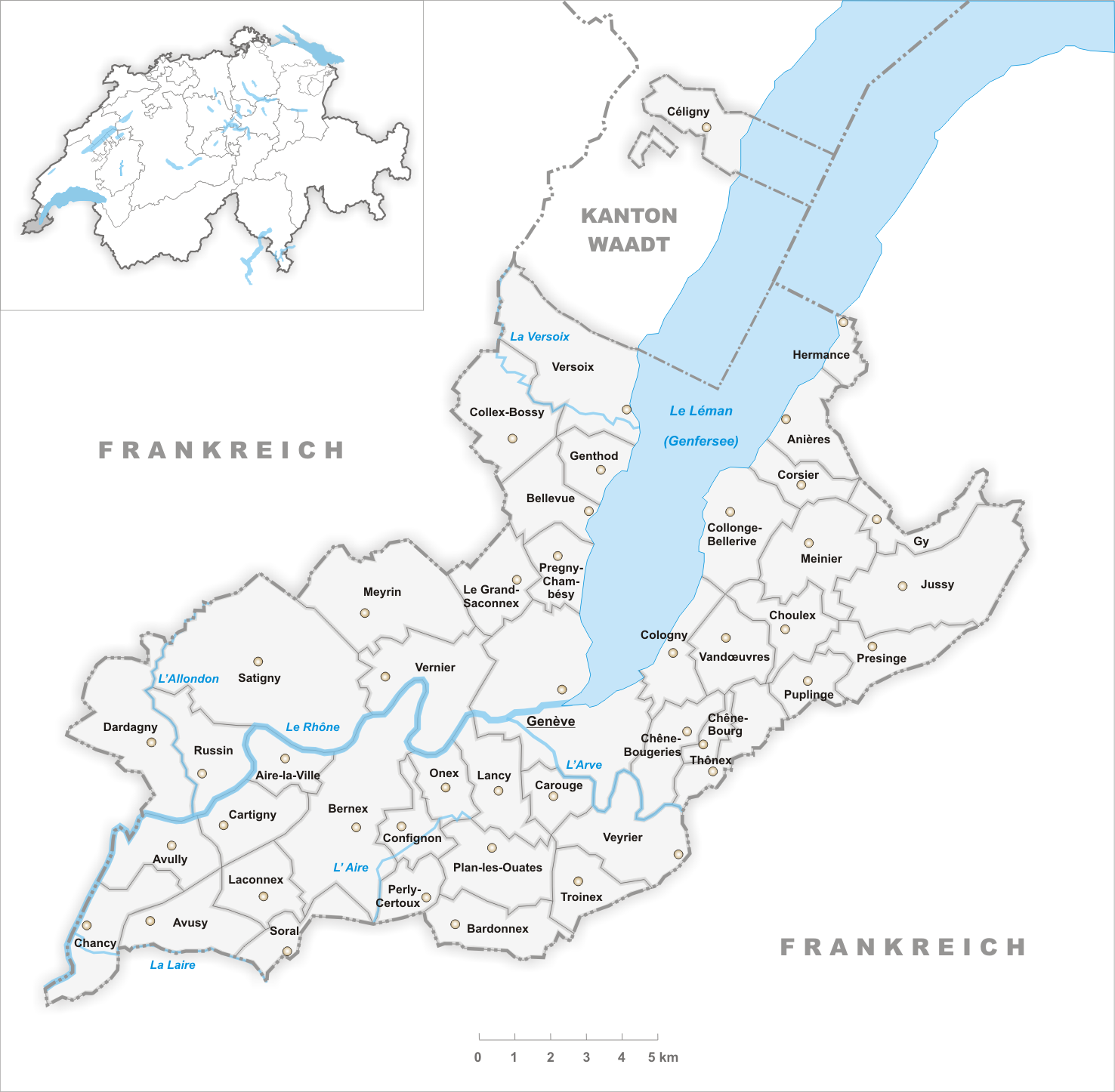 Municipalities in the canton of Geneva